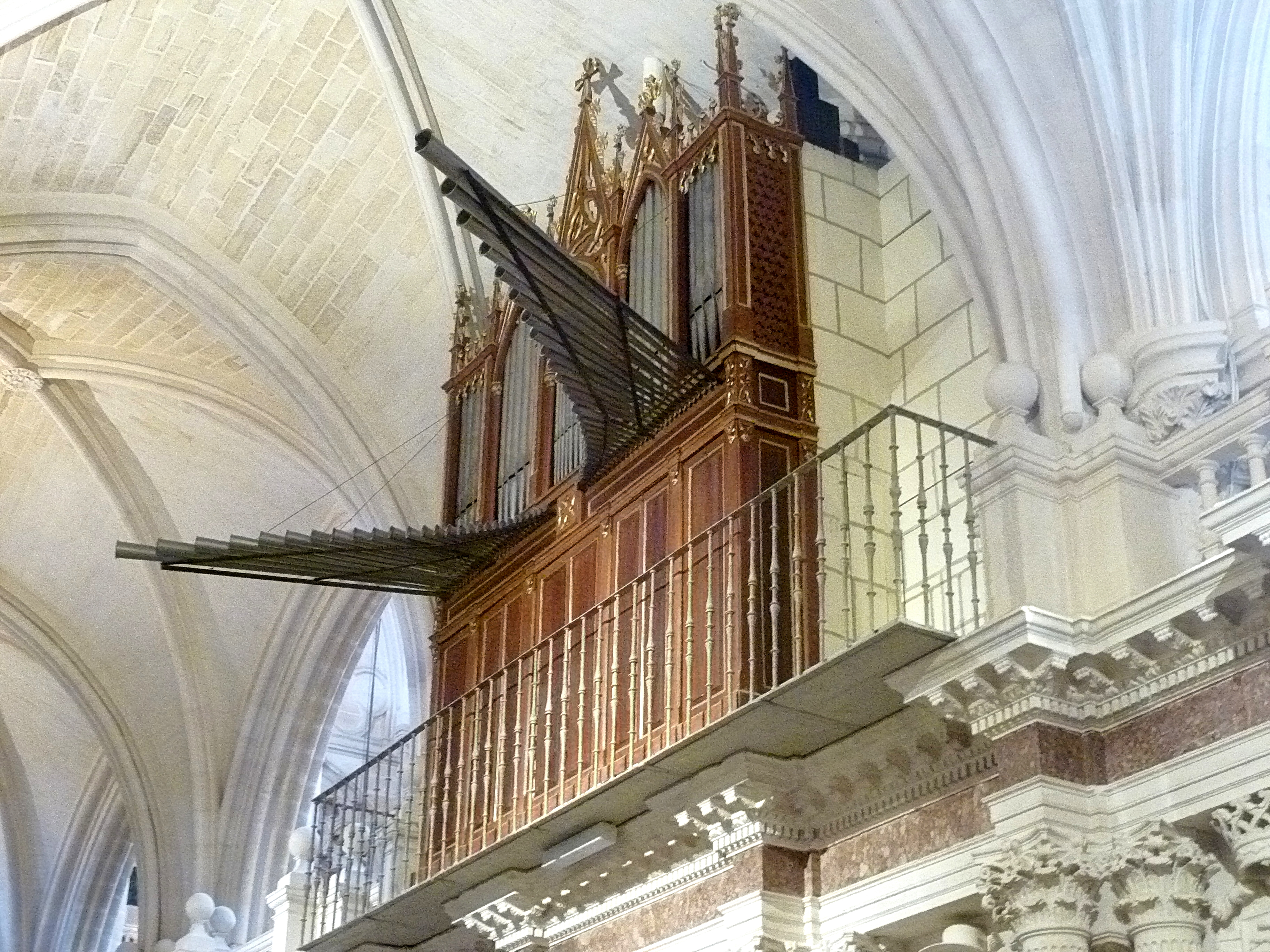 Organ with Spanish trumpets in the Burgos Cathedral, Spain